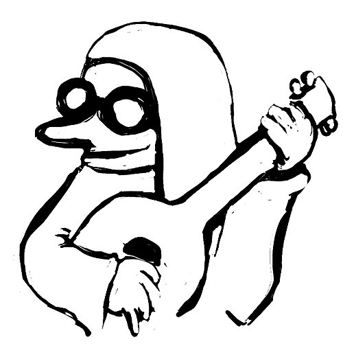 Picture of the Singing Nun (Jeanine Deckers)